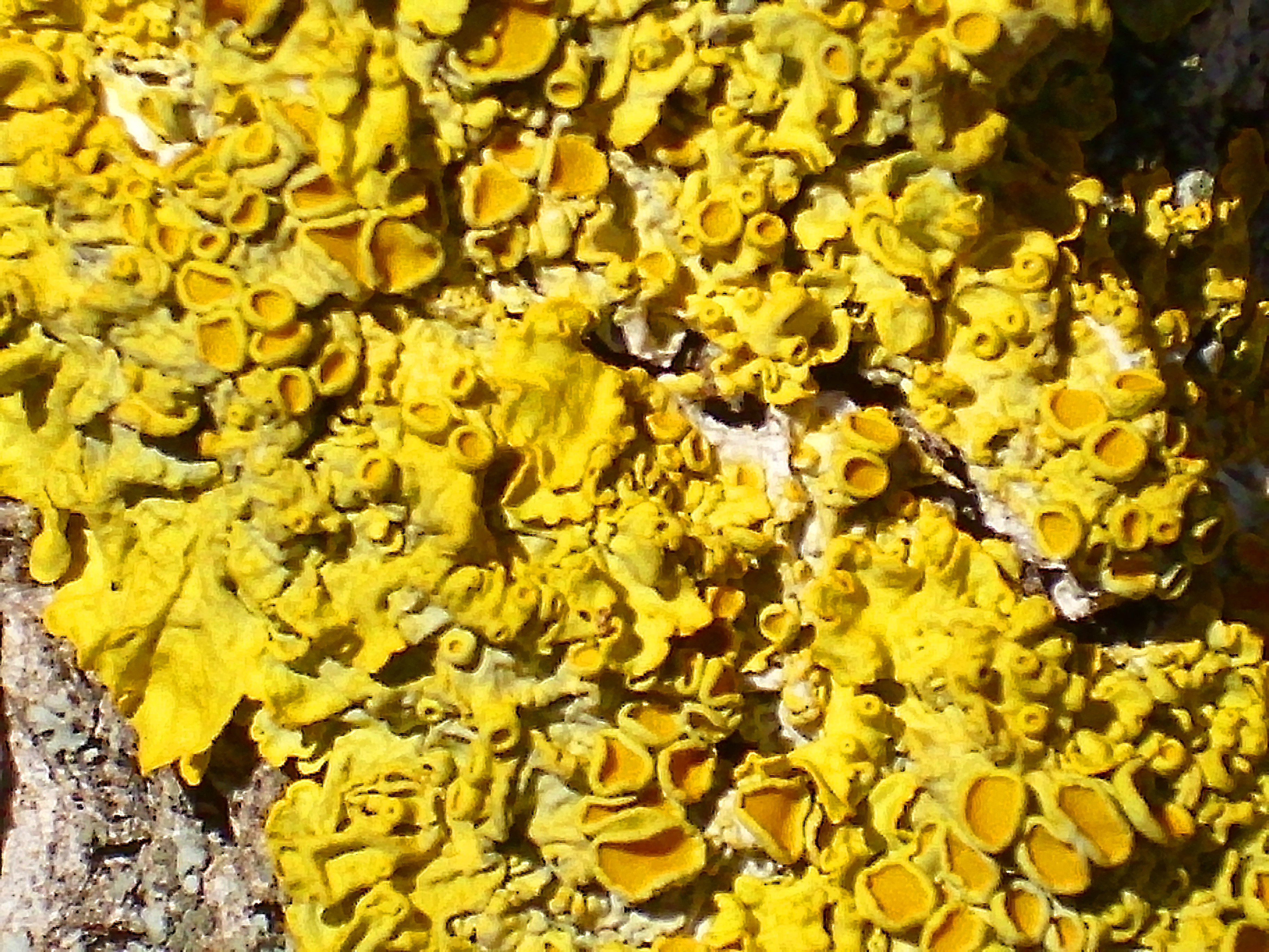 Lichen Xanthoria fallax close up, Sierra Madrona, Spain